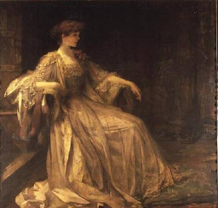 Portrait of Violet, Duchess of Rutland